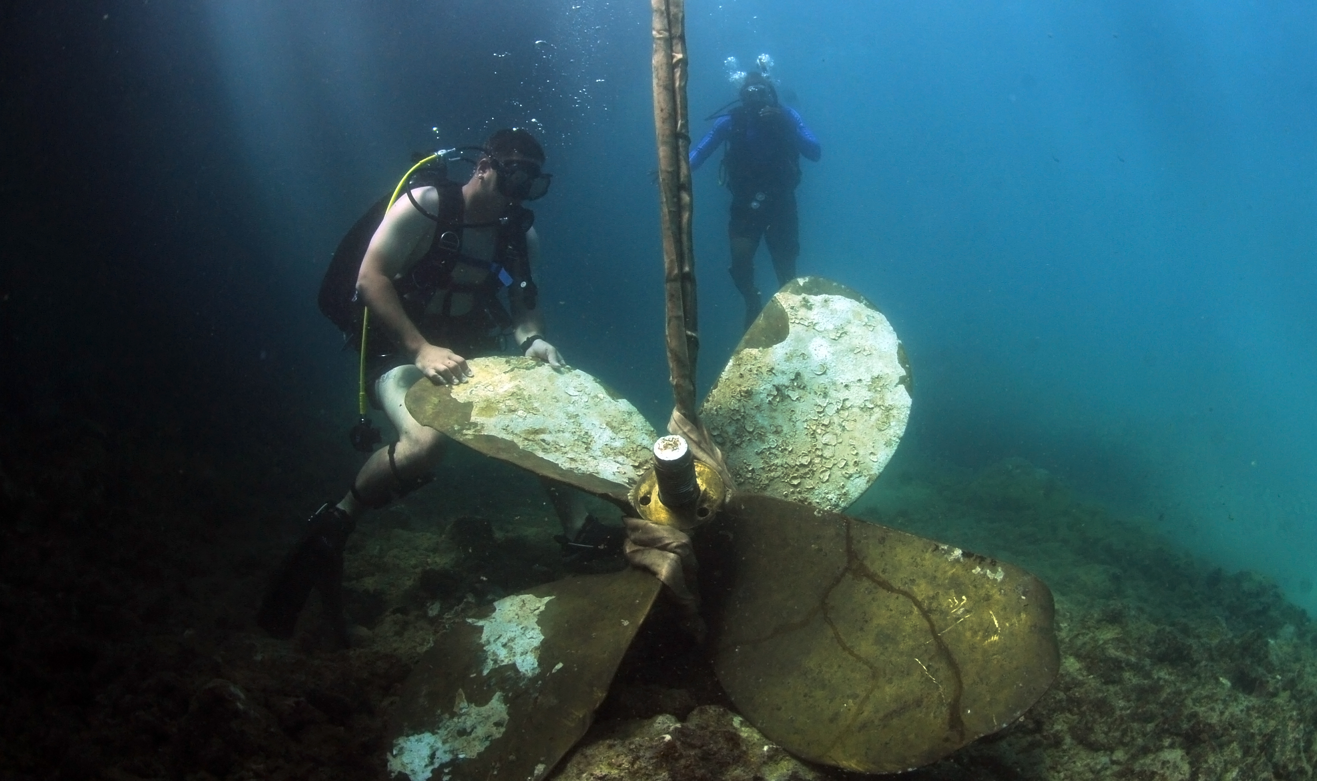 BRIDGETOWN, Barbados (June 8, 2011) Navy Diver 2nd Class Justin McMillen, assigned to Mobile Diving and Salvage Unit (MDSU) 2, maneuvers a sunken ship's screw before lifting it to the surface. Lift bags are used to lift objects off ocean floor by utilizing air to fill the bag and lift the sunken object. MDSU-2 is participating in Navy Diver-Southern Partnership Station, a multinational partnership engagement designed to increase interoperability and partner nation capacity through diving operations. (U.S. Navy photo by Mass Communication Specialist 1st Class Jayme Pastoric/Released)